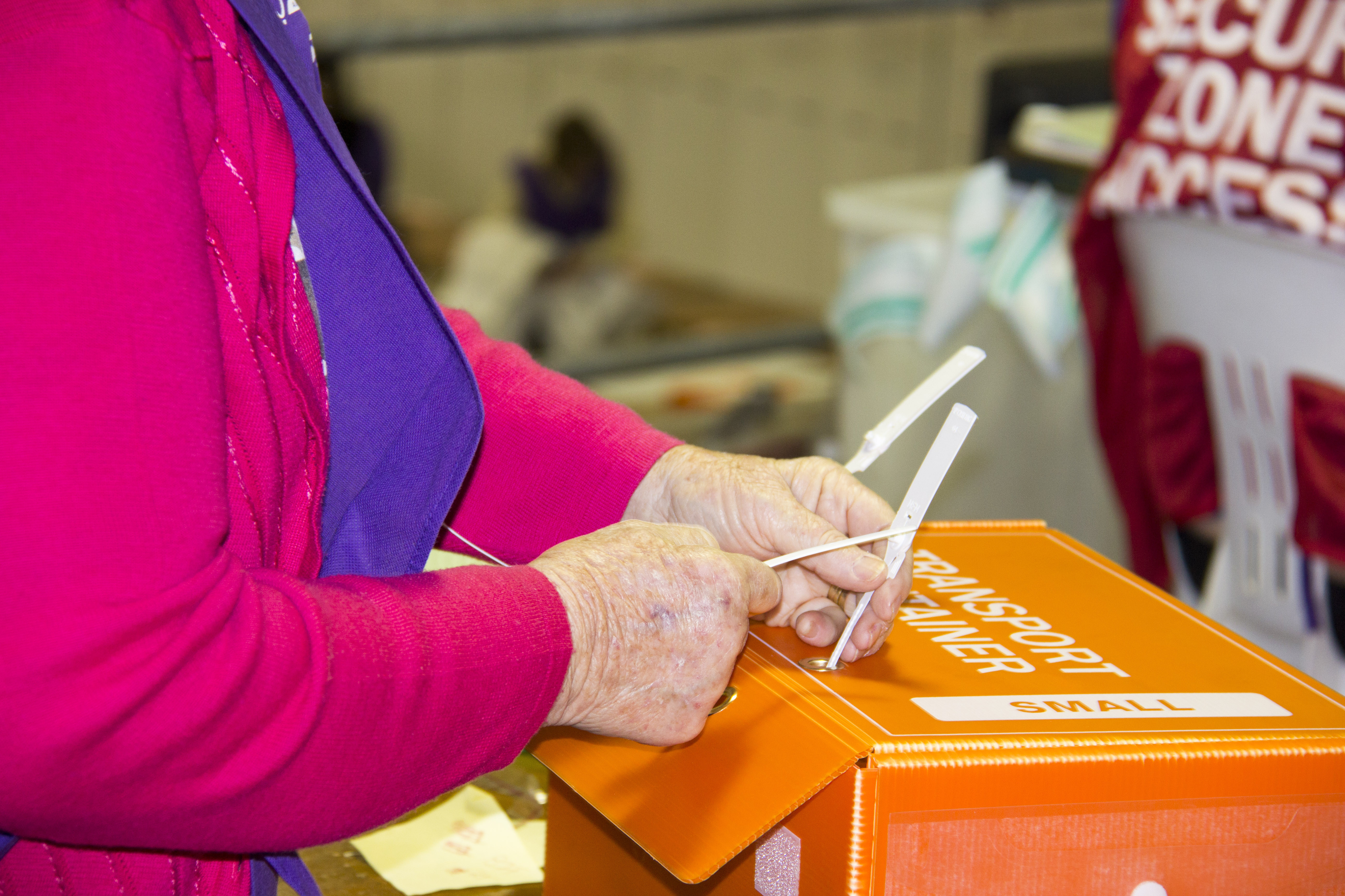 Australian Electoral Commission image library, 2016 federal election. Sealing ballot papers.